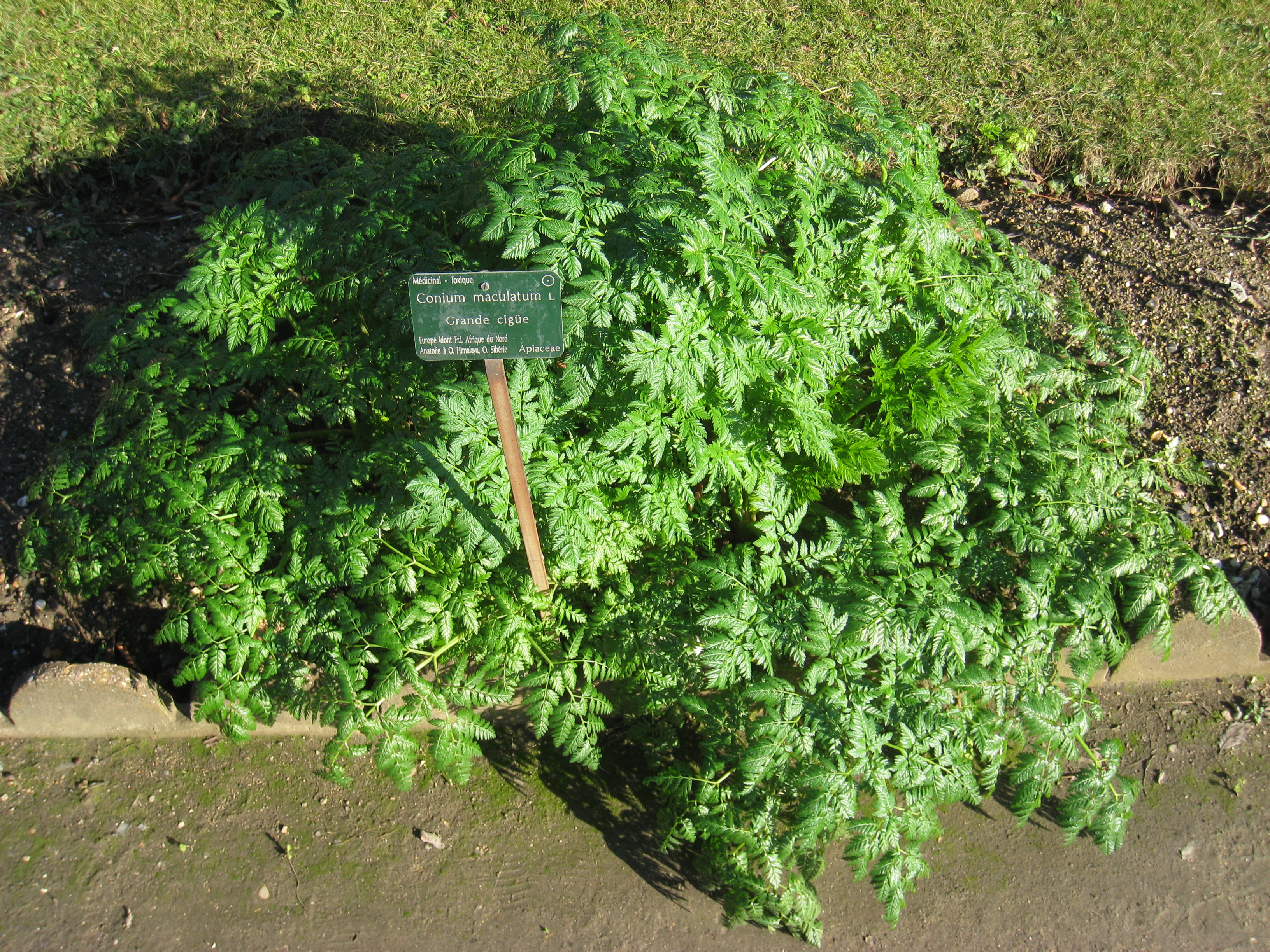 Conium maculatum in the Jardin des Plantes de Paris, Paris, France.